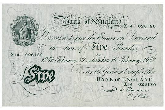 Great Britain, Bank of England, uniface White £5, 27 February 1952, London, serial no.X14. Signed Percival Beale